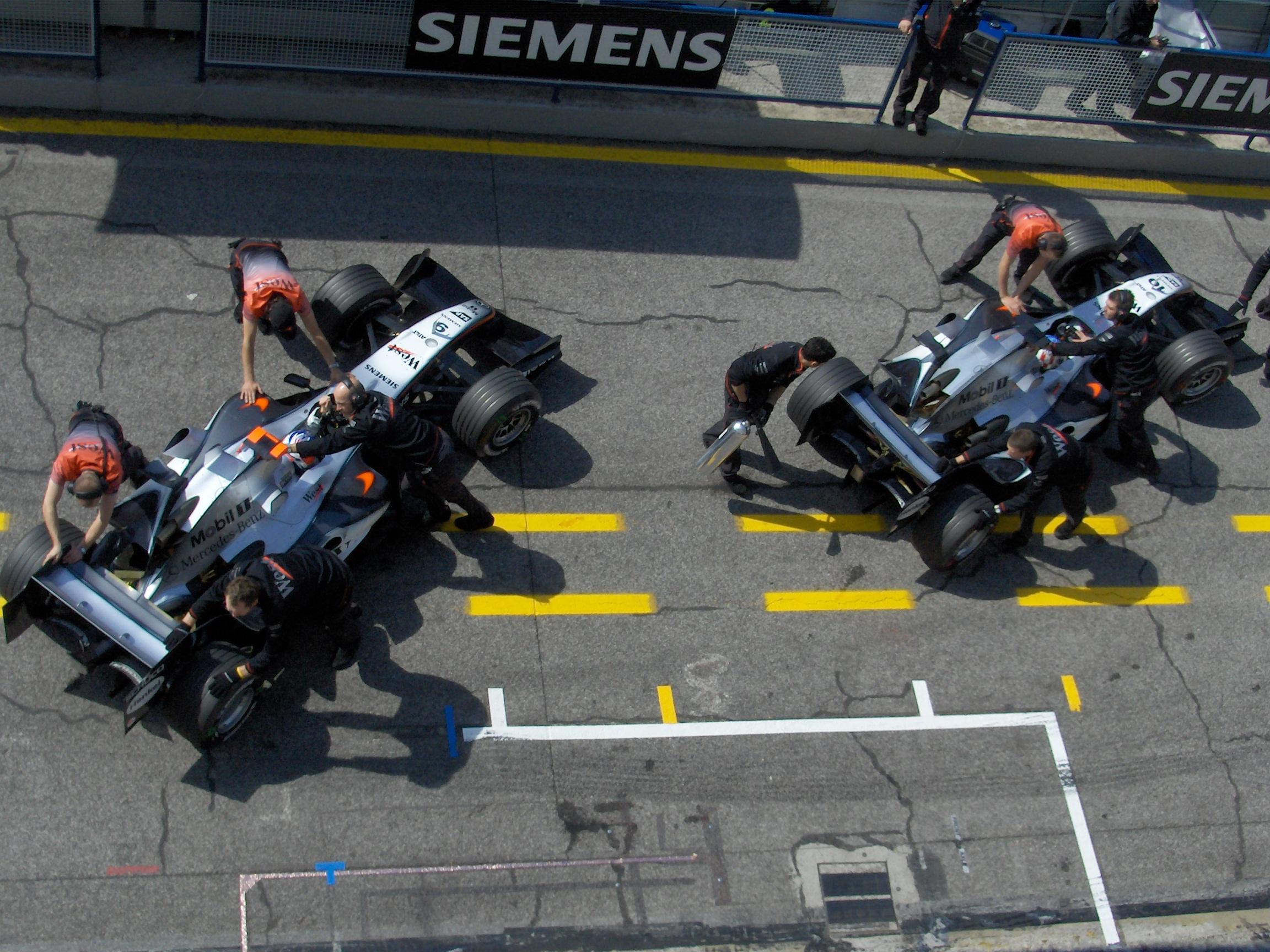 Kimi Räikkönen (left) and Alex Wurz (right) in the McLaren garage at the 2005 San Marino Grand Prix.